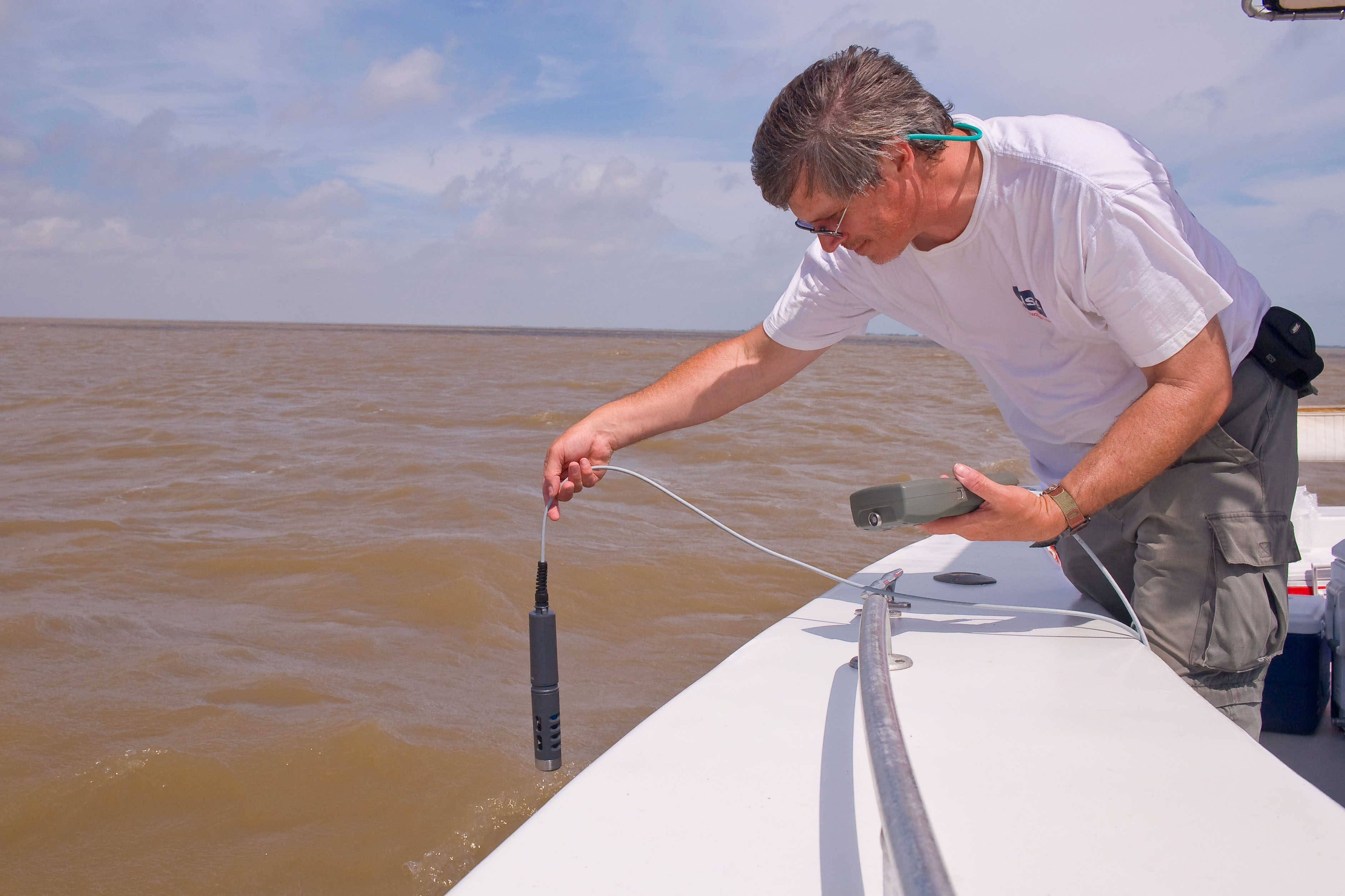 May 12, 2010. Salinity, temperature, Ph testing. Curtis Franklin, Dougherty Srague Environmental Inc. EPA contractor. USEPA photo by Eric Vance More about EPA's response at